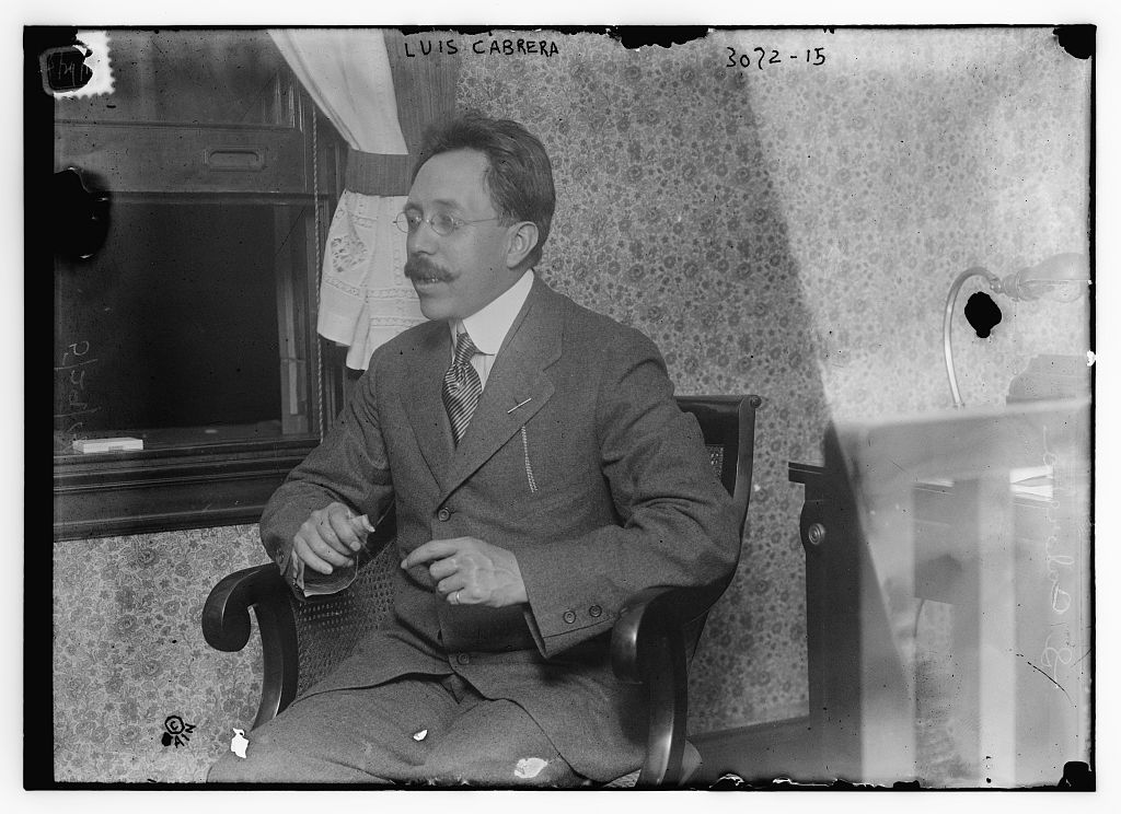 Luis Cabrerra in 1914 Bain News Service,, publisher. Luis Cabrerra [between ca. 1910 and ca. 1915] 1 negative : glass ; 5 x 7 in. or smaller. Notes: Title from unverified data provided by the Bain News Service on the negatives or caption cards. Forms part of: George Grantham Bain Collection (Library of Congress). Format: Glass negatives. Repository: Library of Congress, Prints and Photographs Division, Washington, D.C. 20540 USA, General information about the Bain Collection is available at Persistent URL: Call Number: LC-B2- 3072-15 Comments and faves